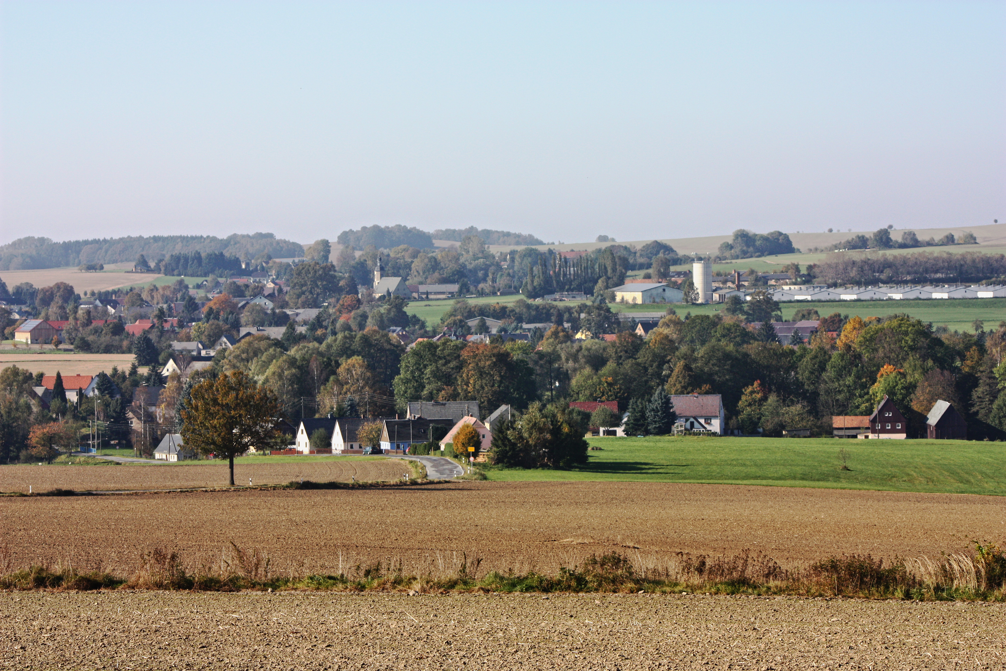 View from Goldbach to Frankenthal in the district of Bautzen in Saxony, Germany.